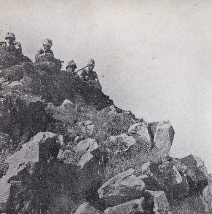 Battle of Lake Khasan-Japanese soldiers defending Zaozarnaya Hill